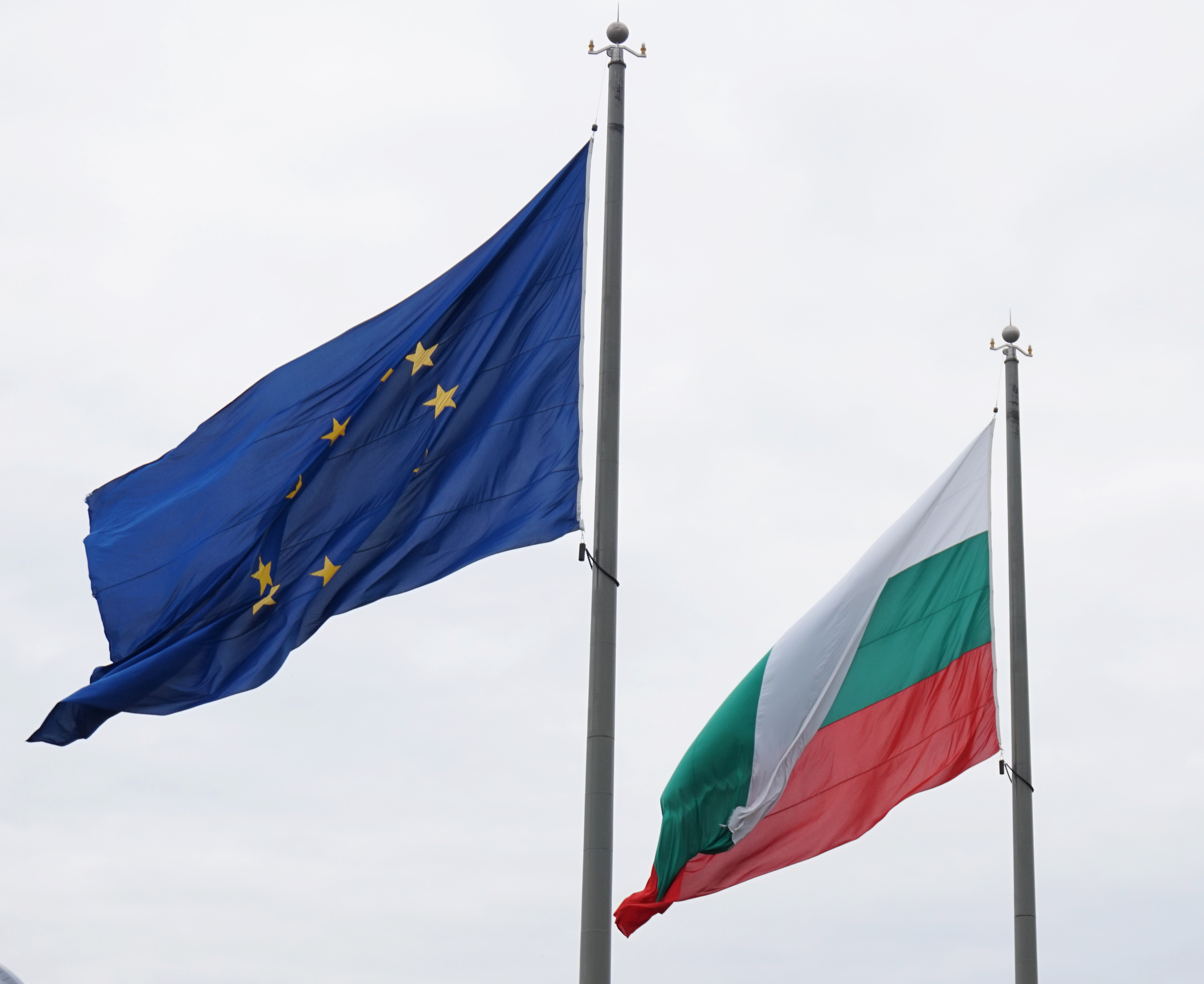 Flags of European Union and Bulgarian.This photograph was taken with a Sony ILCE-5000